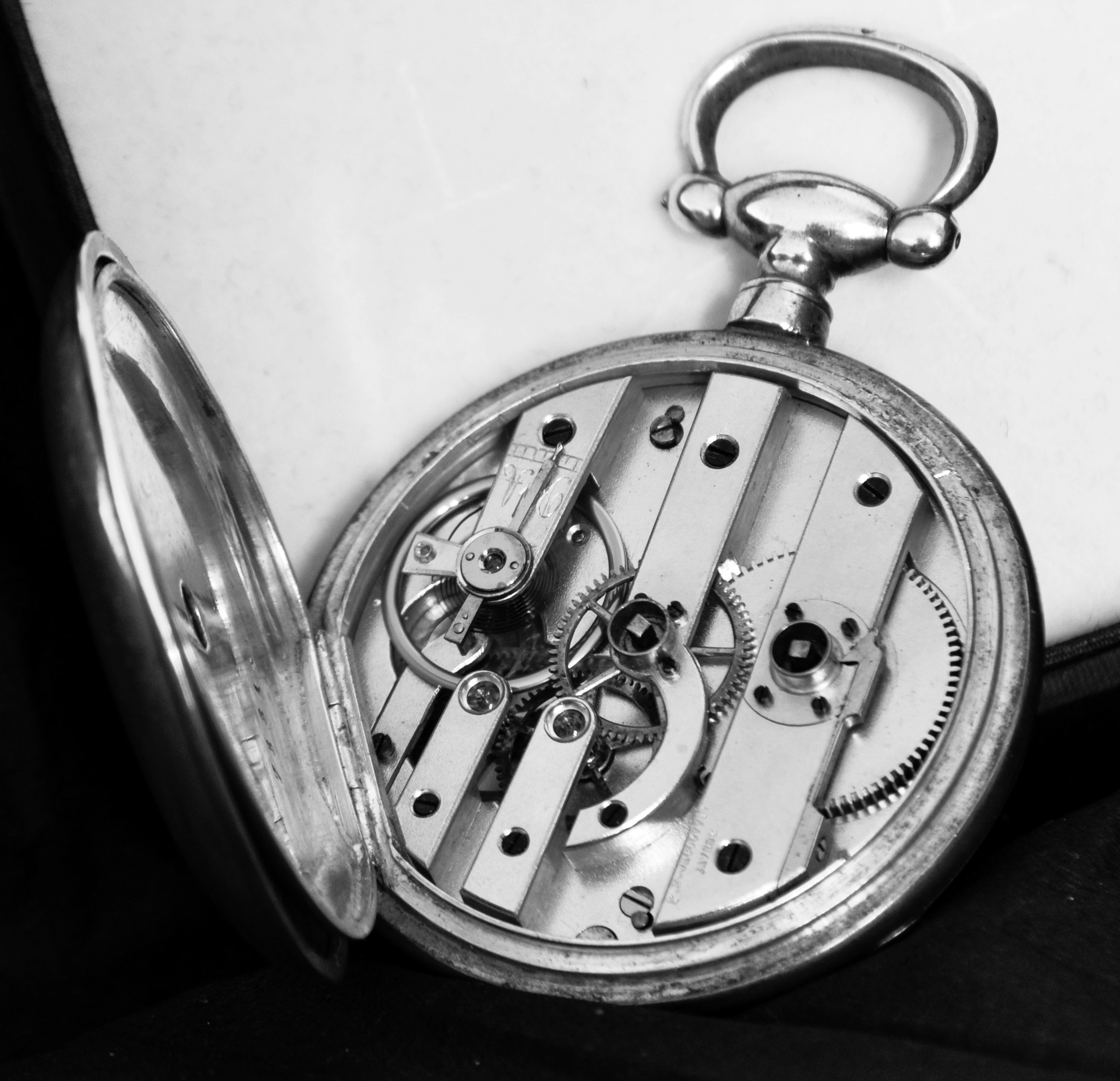 A French watch-pocket from the 1920s. Bain-de-Bretagne, France.